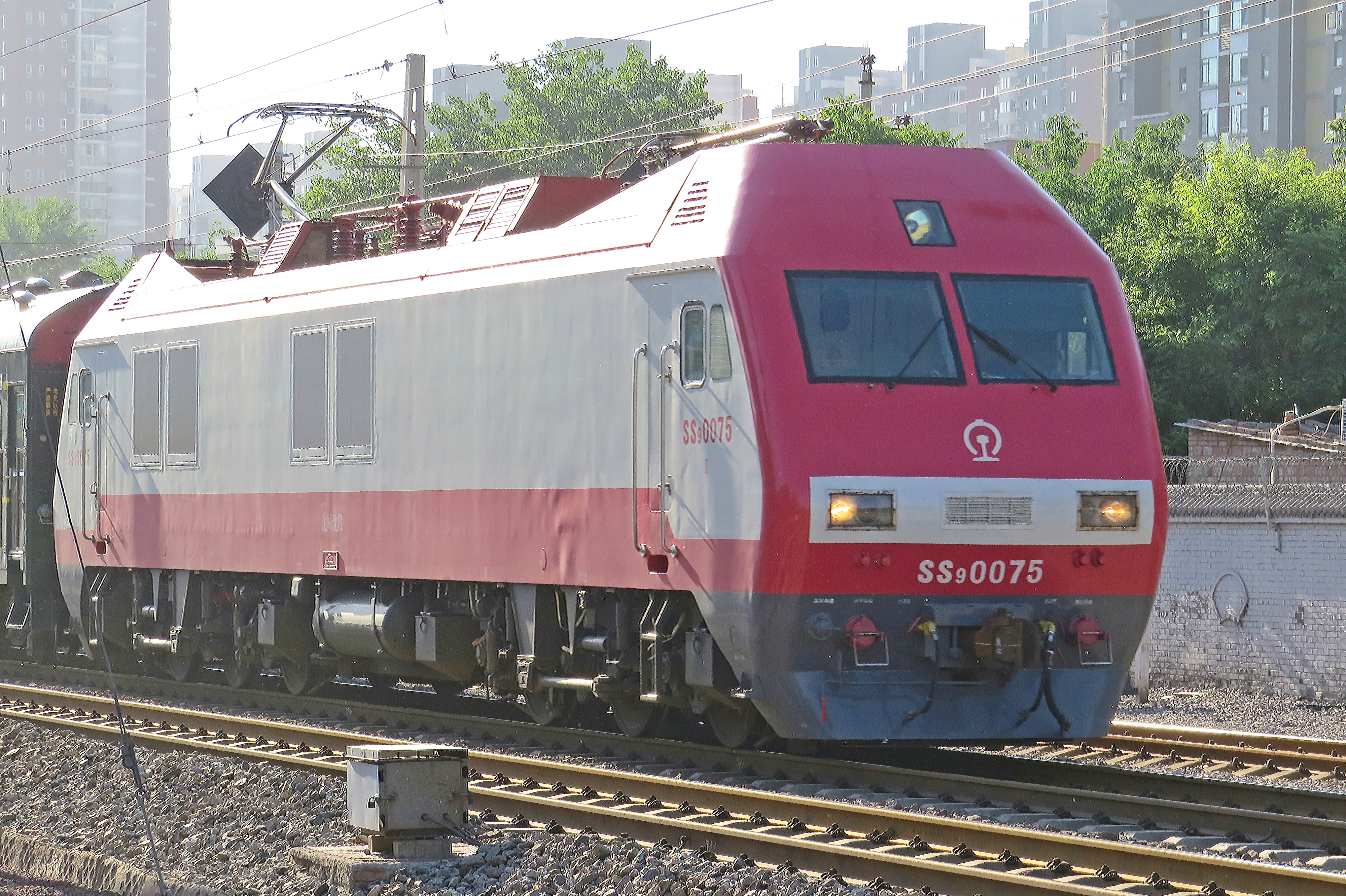 K54 from Shenyang North. Nearly all trains from the Northeast are delayed due to storms in Liaoning.